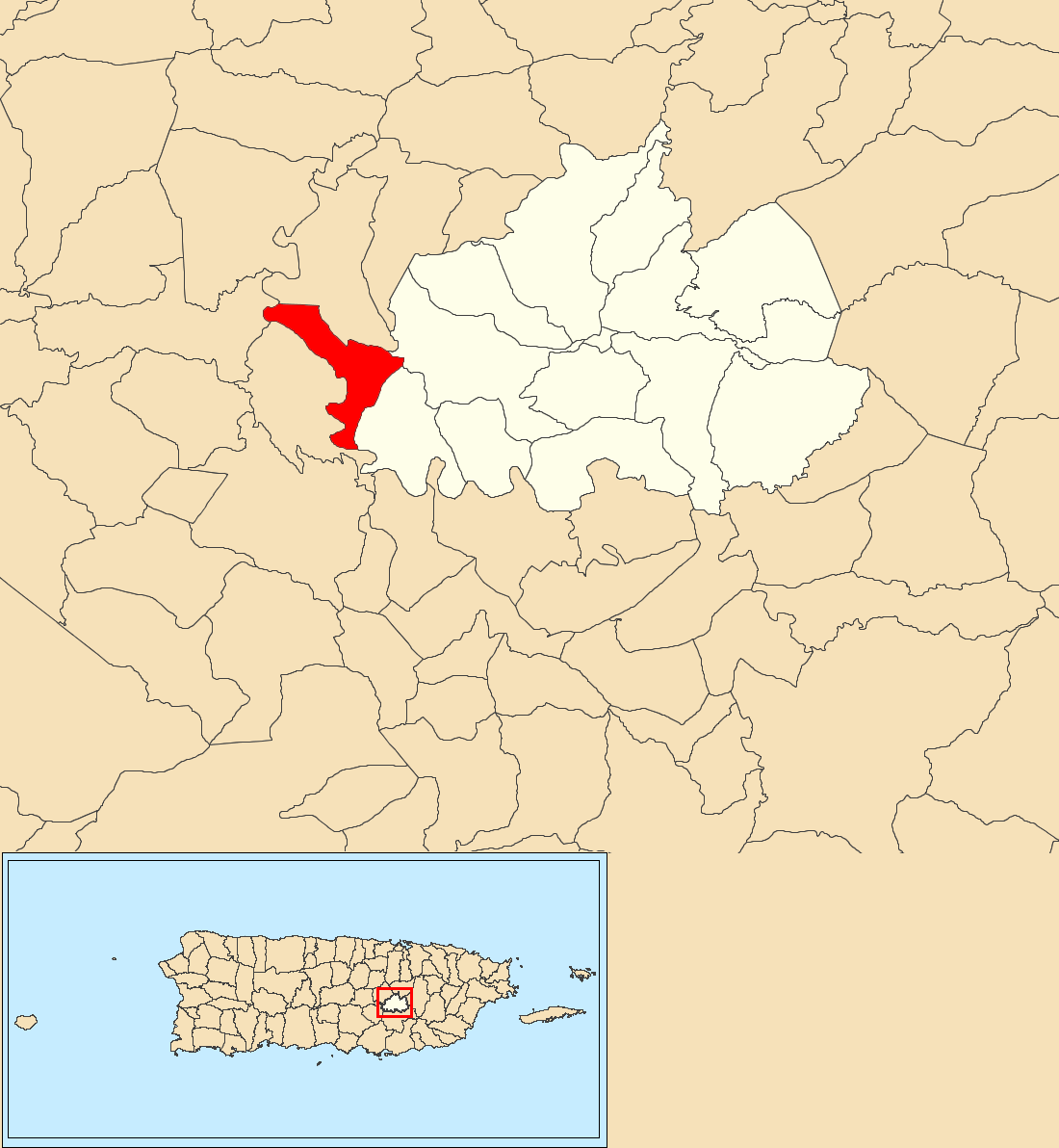 Salto, Cidra, Puerto Rico locator map